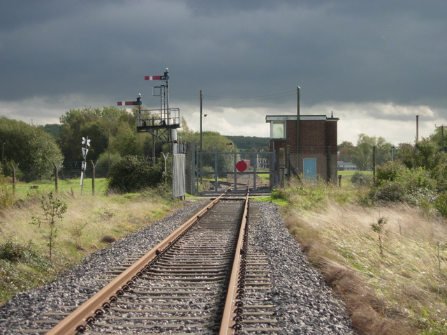 Arncott supply depot. This is the Bicester Military Railway that serves Arncott MoD depot. Arncott Hill is visible in the middle distance to the left. The picture was taken from near the railway bridge over the River Ray.